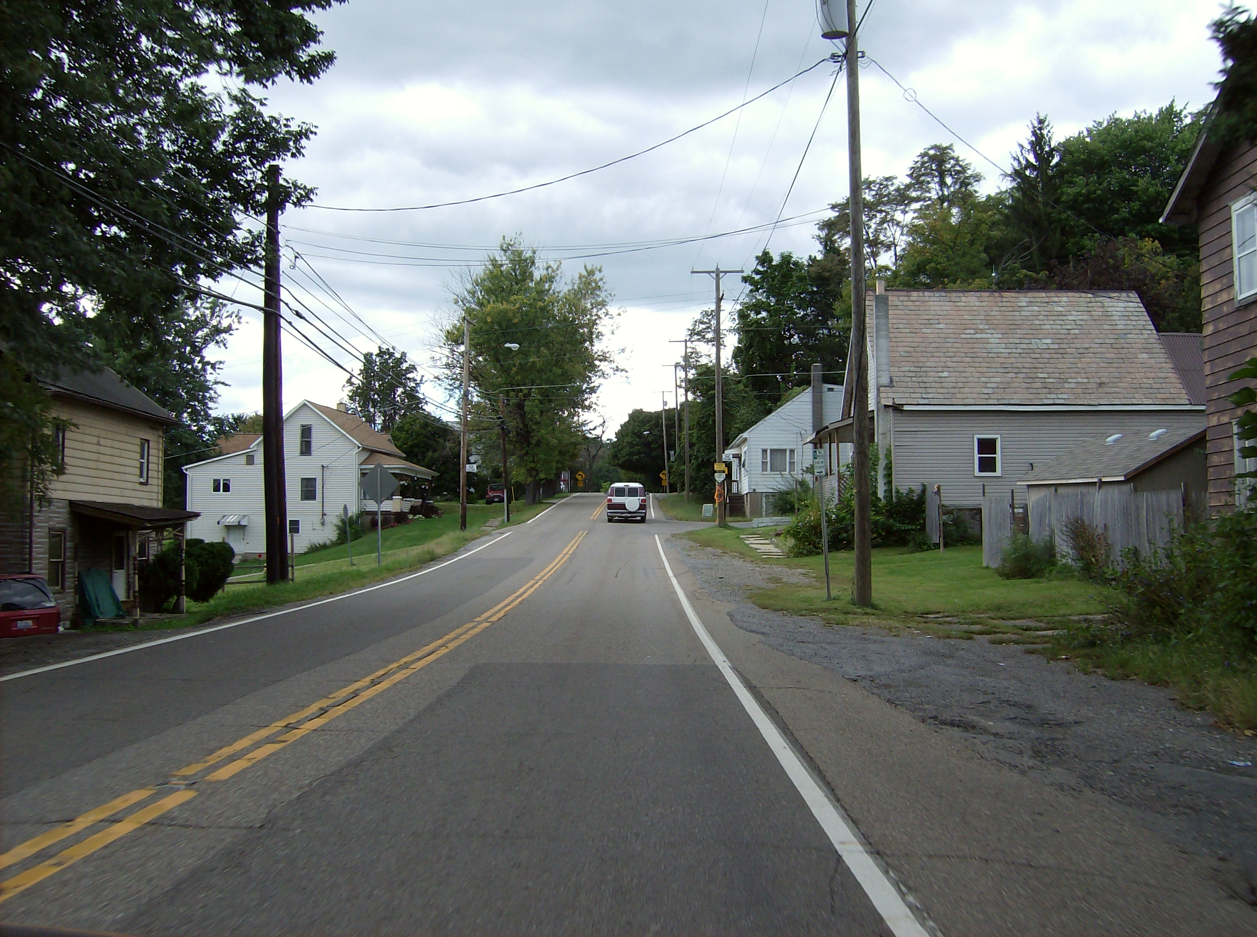 Along westbound State Route 43 in the eastern part of East Springfield, an unincorporated community in northwestern Salem Township, Jefferson County, Ohio, United States.